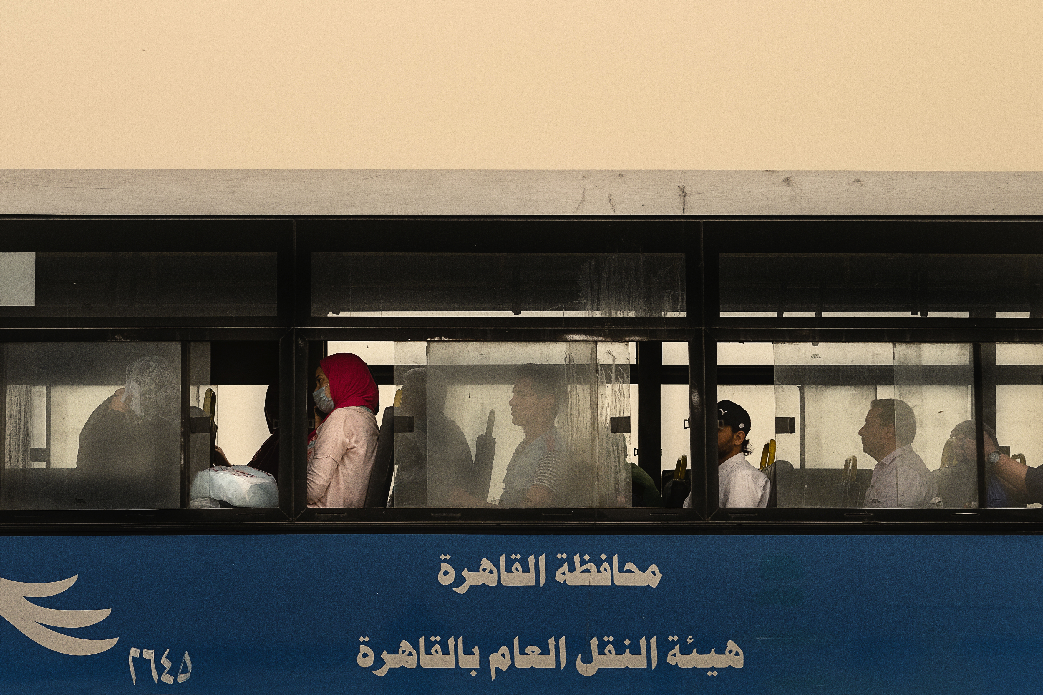 people sitting in public bus in cairo during Corona days This is an image with the theme "Africa on the Move or Transport" from: Egypt